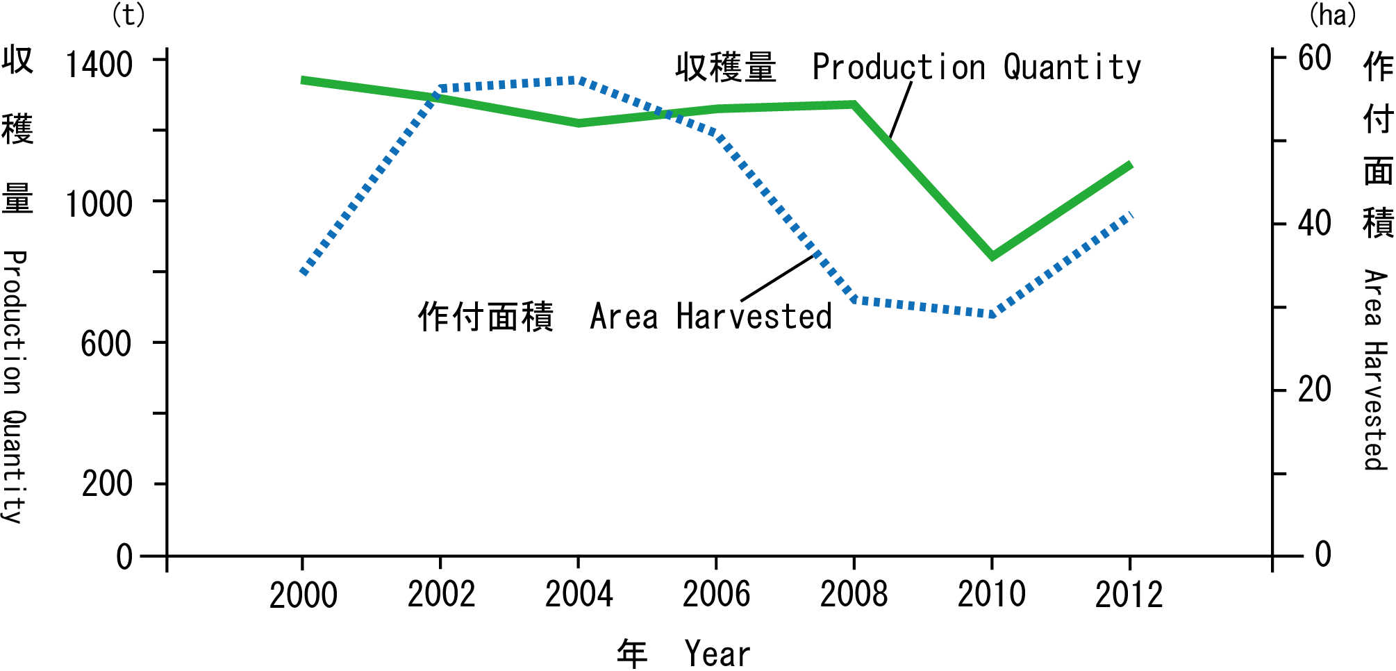 These graphs show production quantity and area harvested of watercress in Japan from 2000 to 2012. Data source is Ministry of Agriculture, Forestry and Fisheries, Japan.